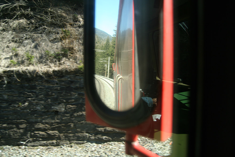 Rear-view mirror of a ÖBB class 1144 locomotive